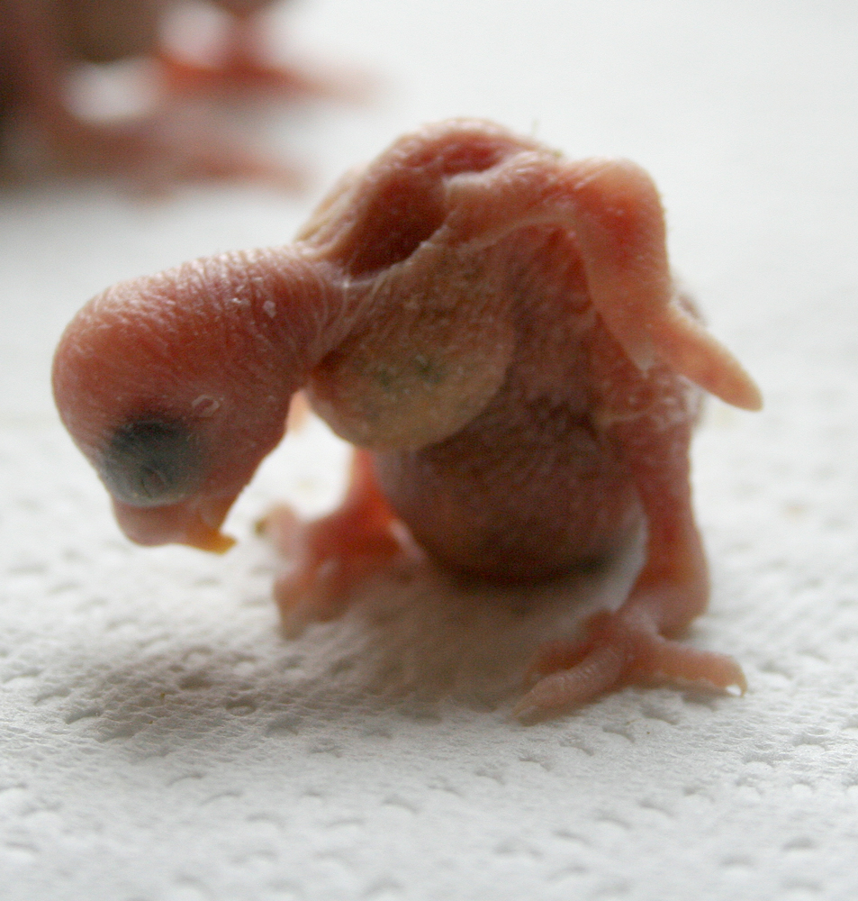 A Budgerigar chick. Its eyes have not yet opened. It is the American Budgerigar or American Parakeet variety.